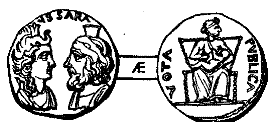 738 woodcuts illustrating the work A Dictionary of Roman Coins, Republican and Imperial (1889). To identify a coin please look at the filename to identify a page number, and check the Dictionary on numiswiki